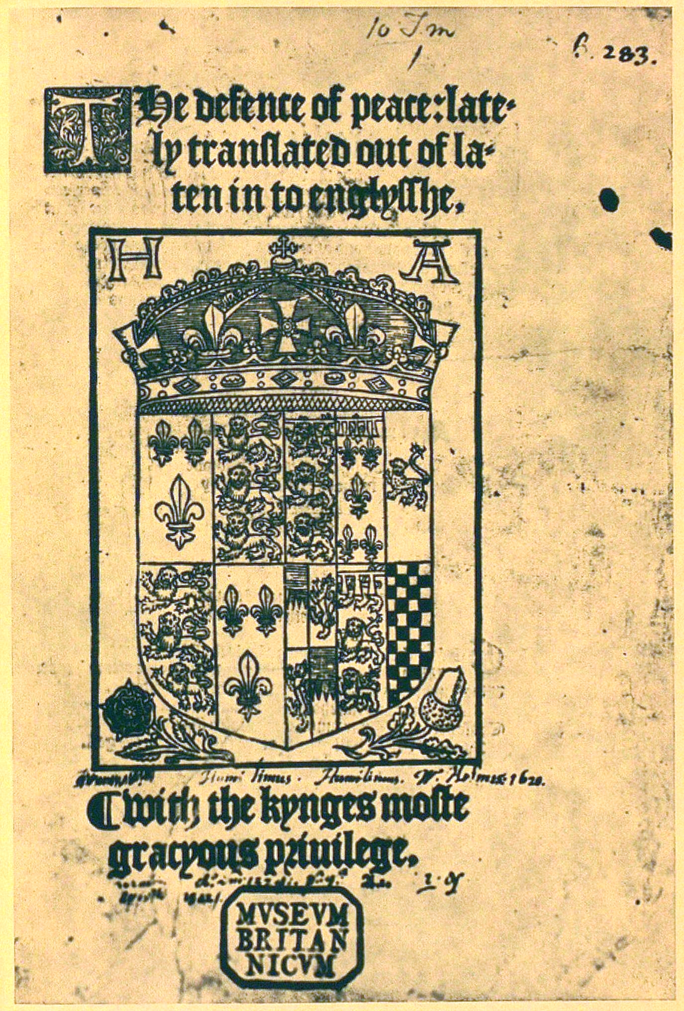 The title page of the English translation of the Defensor pacis printed in London.